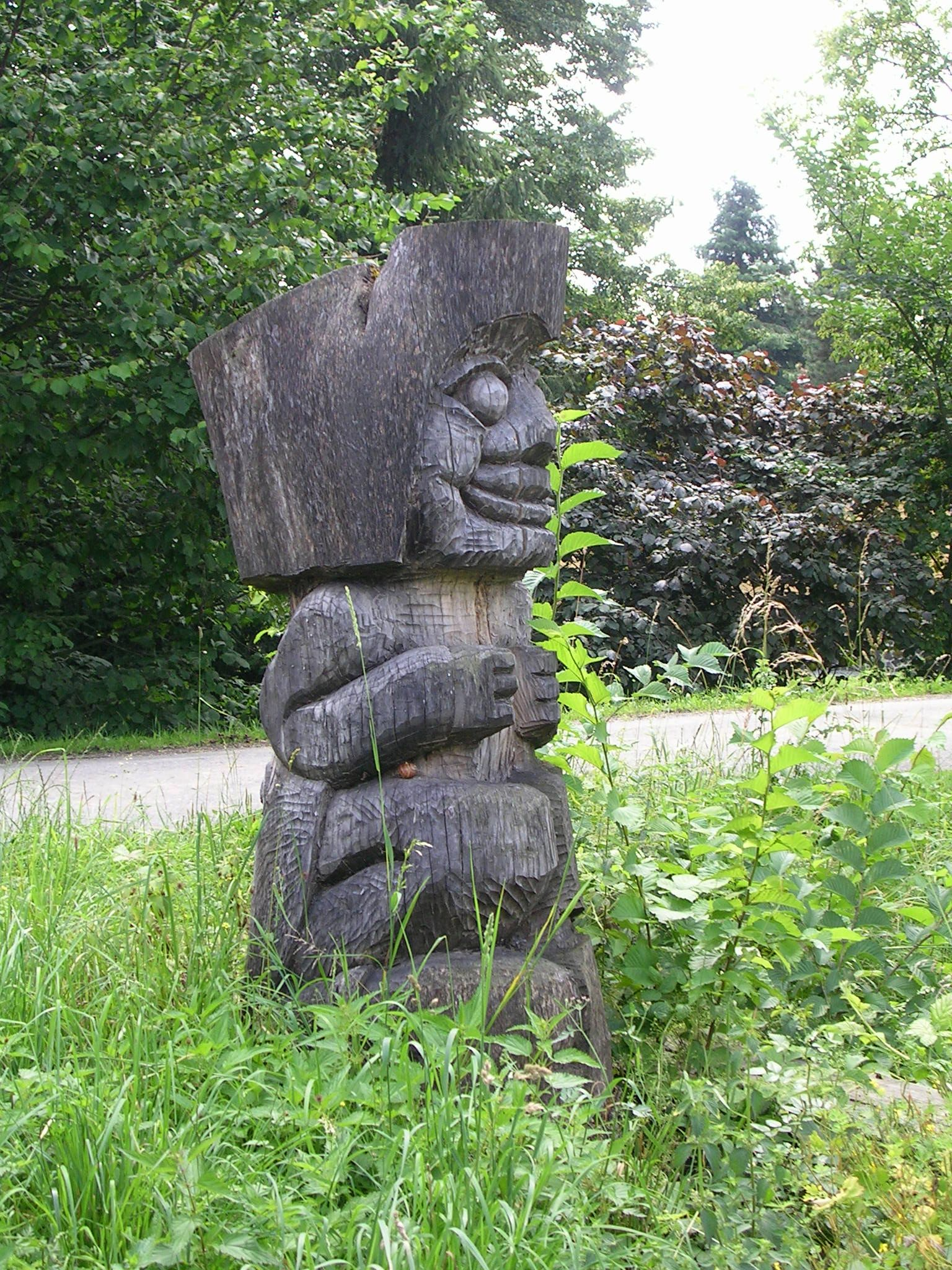 Vysoký Chlumec-Pořešice, Příbram District, Central Bohemian Region, the Czech Republic.